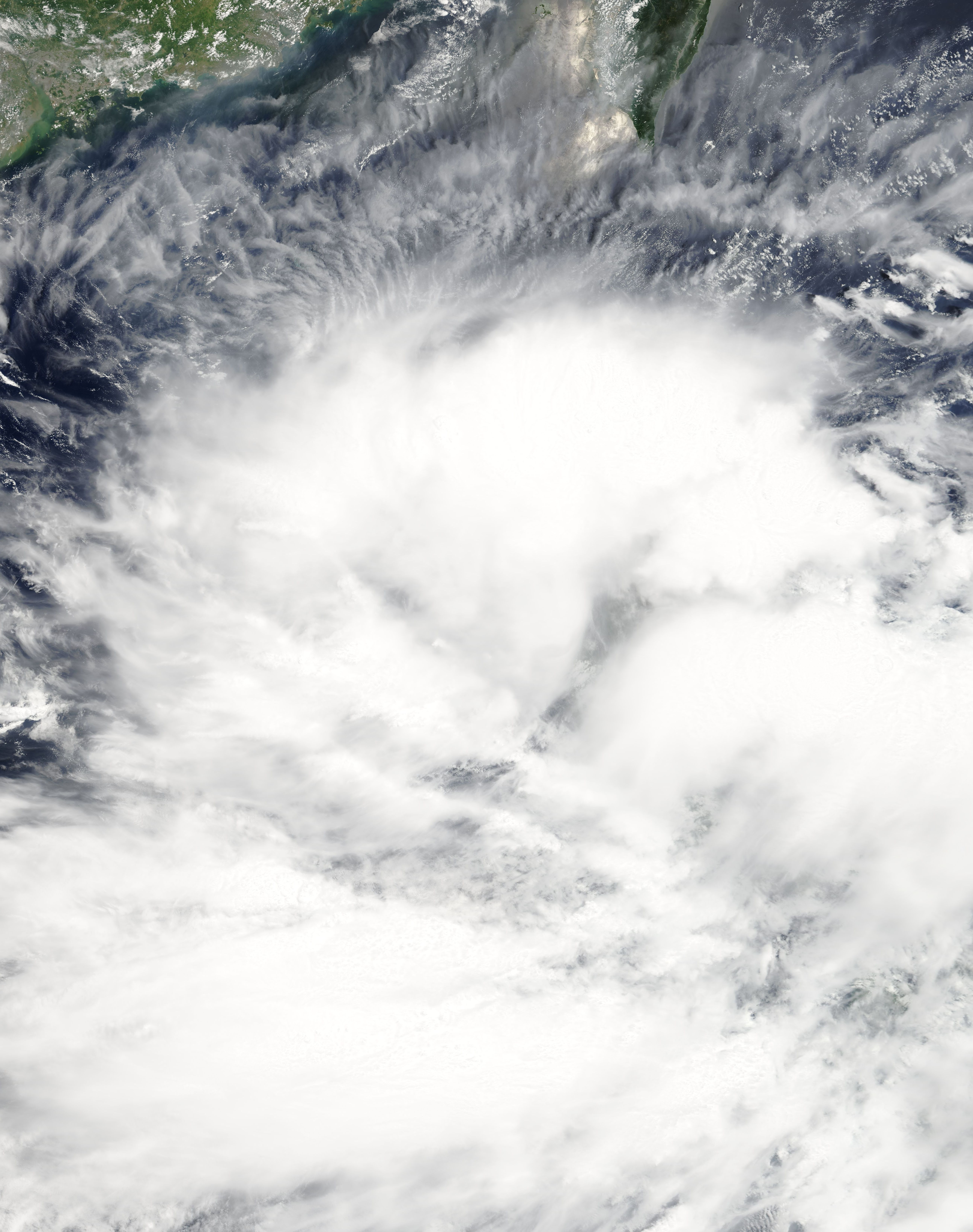 JMA TD 10 (Jolina) at first landfall.